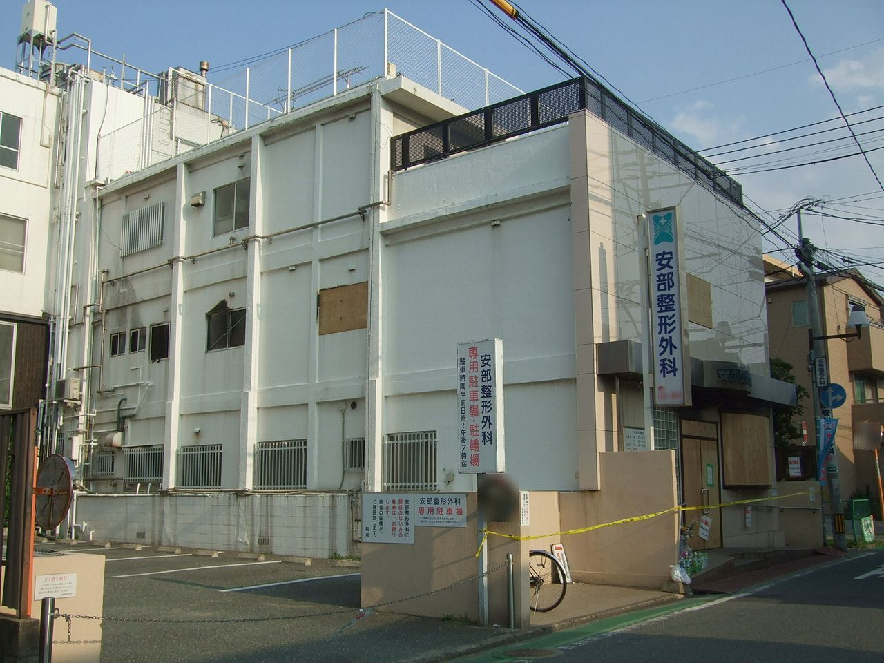 Abe Orthopedic Hospital, Hakata Ward, Fukuoka City, Fukuoka, Japan. This hospital was caught a fire on October 11, 2013, and 10 people were killed.